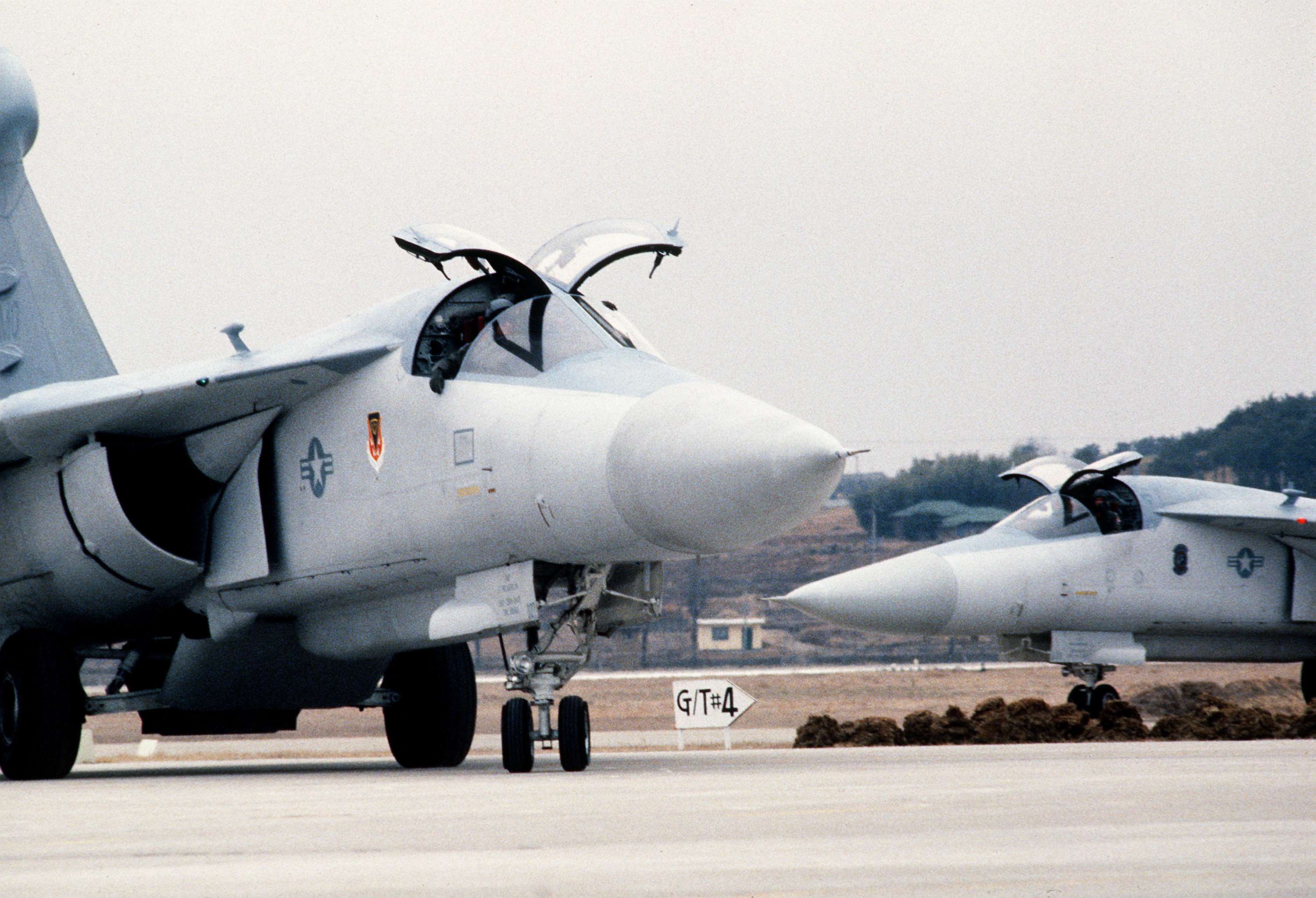 Two 366th Tactical Fighter Wing EF-111 Raven aircraft taxi on the flight line during Exercise Team Spirit '85.